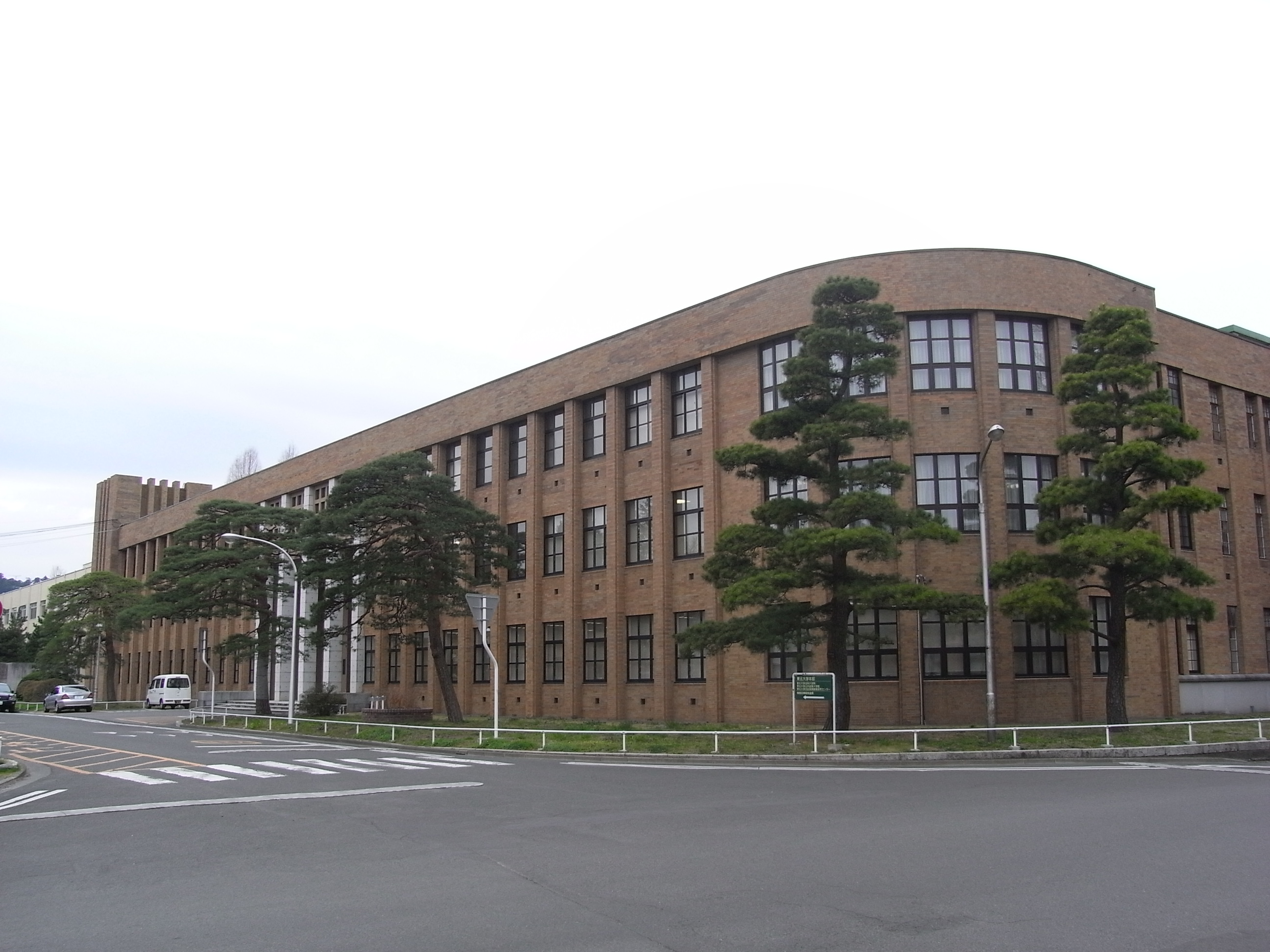 Administrative Office of Tohoku University.